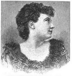 Margaret Manton Merrill